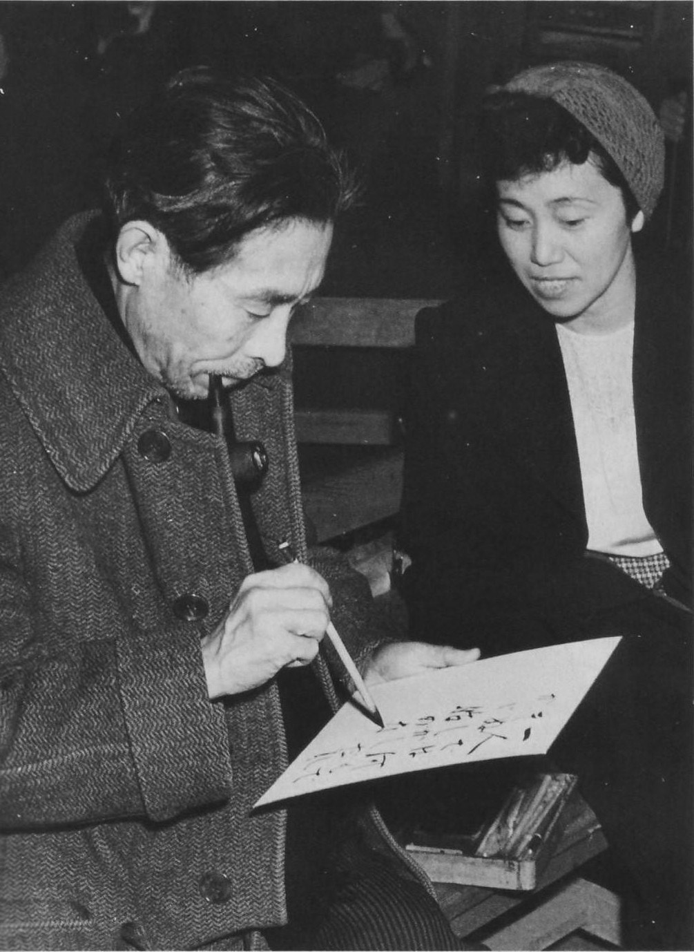 Kunio Kishida (Japanese Playwright and writer) writes that next to the actress Haruko Sugimura, sentence of his novel "Izumi" "People can not do anything alone, but someone has to start".